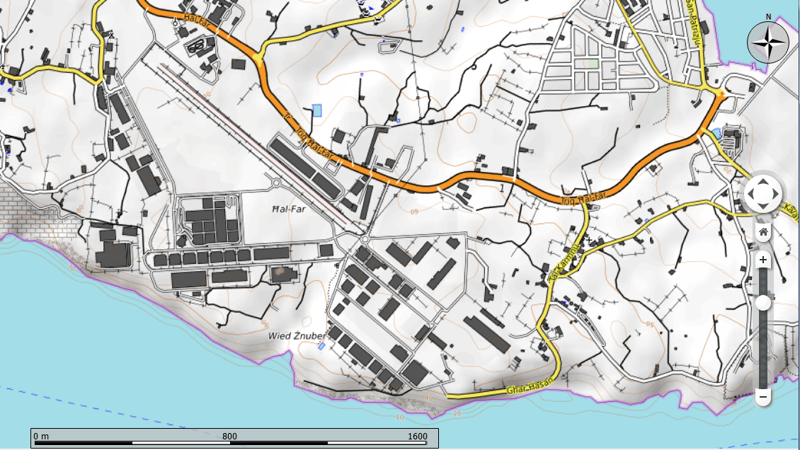 map of Ħal Far, Malta, using the Open Topo Map overlay from the Marble program